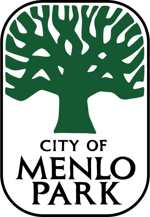 Logo of Menlo Park, California